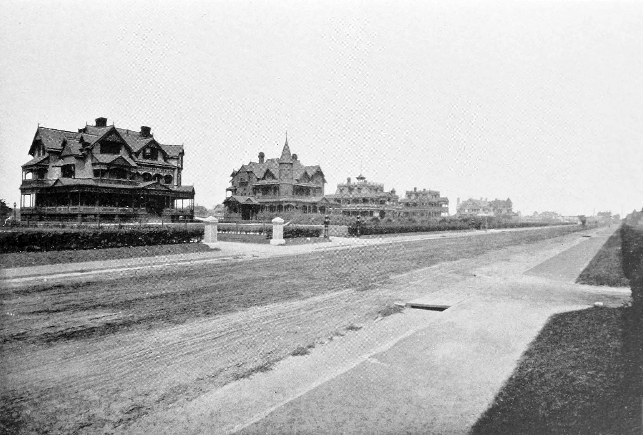 Ocean Avenue in Elberon, New Jersey. Title: Glimpses of New Jersey coast resorts. A collection of choice photographic views of Asbury Park, Ocean Grove, Avon, Belmar, Spring Lake, Sea Girt, Allenhurst, Interlaken, Deal, Elberon, Hollywood, Monmoutn Beach, Sandy Hook, etc Year: 1902 (1900s) Authors: Subjects: New Jersey -- Pictorial works Publisher: Asbury Park, N.J., M. W. & C. Pennypacker Text Appearing Before Image: A Long Drive. Text Appearing After Image: The Oc-eau Drive tlii-ouKli Klbcroii.